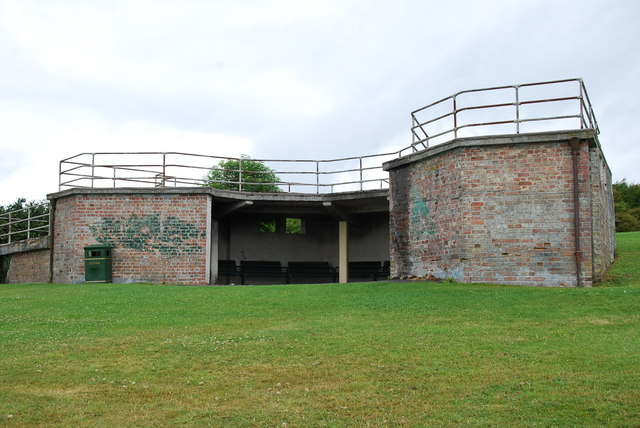 Second World War gun position for twin 6 Pounder gun, Western King's Redoubt, Plymouth